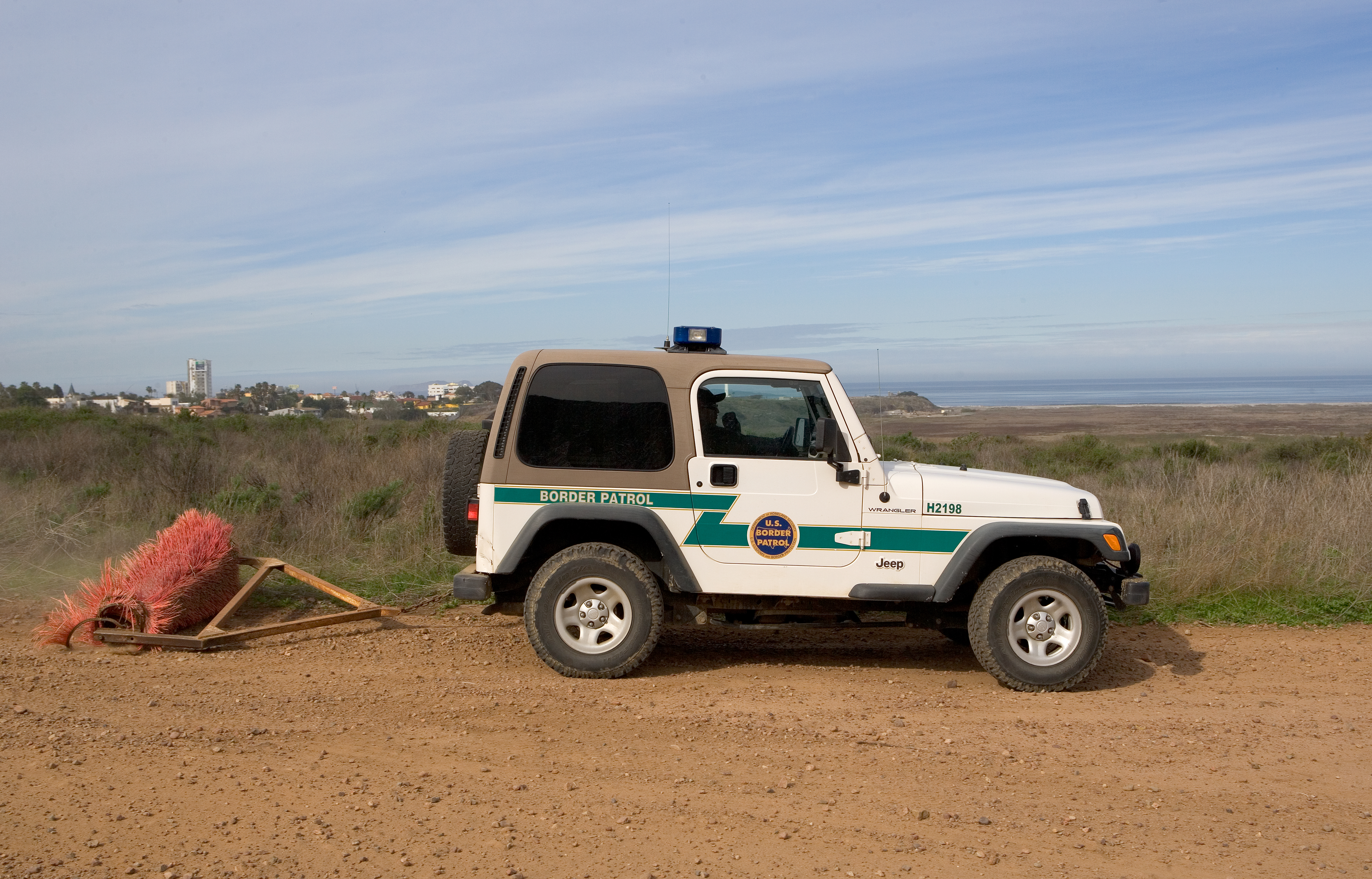 Border Patrol agent conducts a technique called "Dragging" in which imprints are cleared at the start of the shift in order to better determine a time line of when crossings happen. Border Patrol in San Diego, CA, USA (U.S. Customs and Border Protection - United States Department of Homeland Security) - Text by U.S. Customs and Border Protection